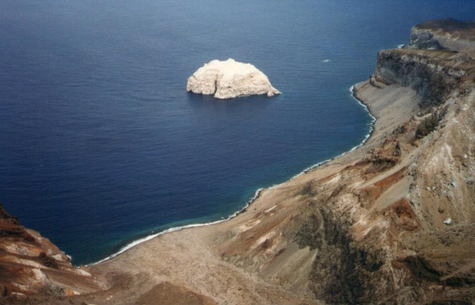 Taken from 'Louies Ledge' circa 1994. Spire Beach (foreground) was used by the English Bay Company as a base for guano collection on the island.